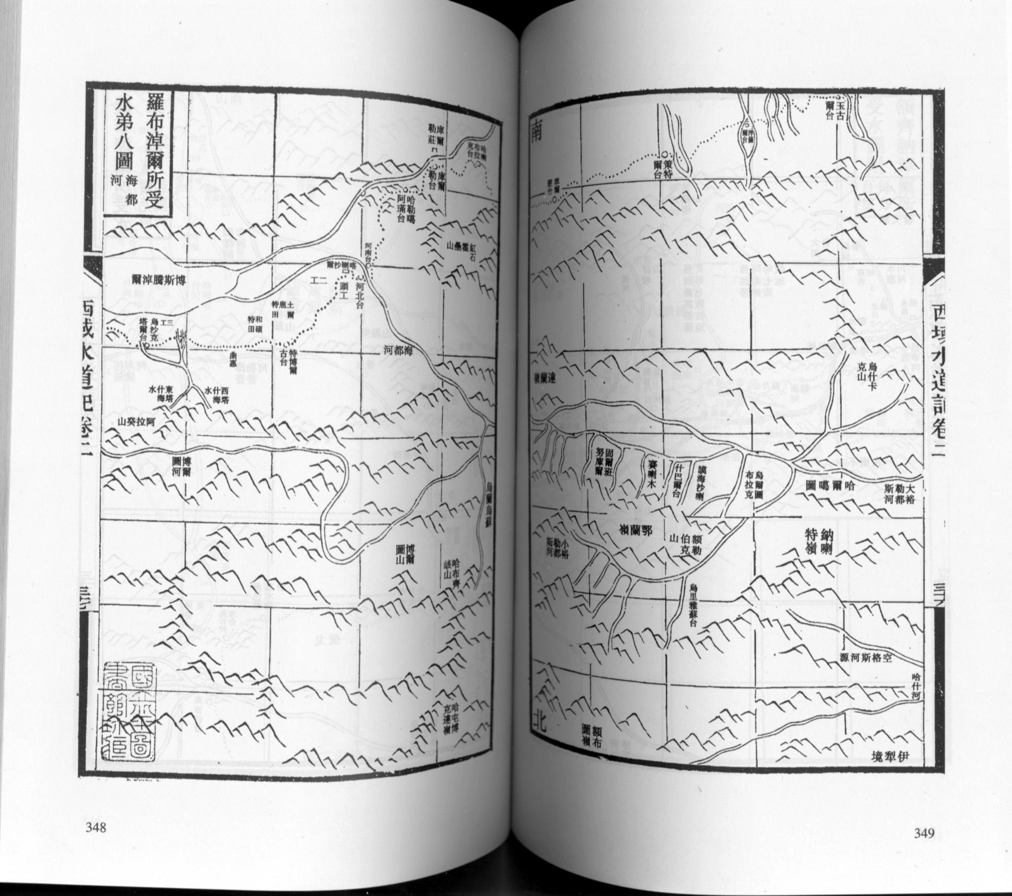 Map of waterways in the western region of China (1829)